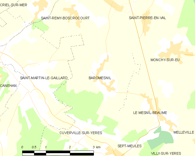 Map of French municipality Baromesnil